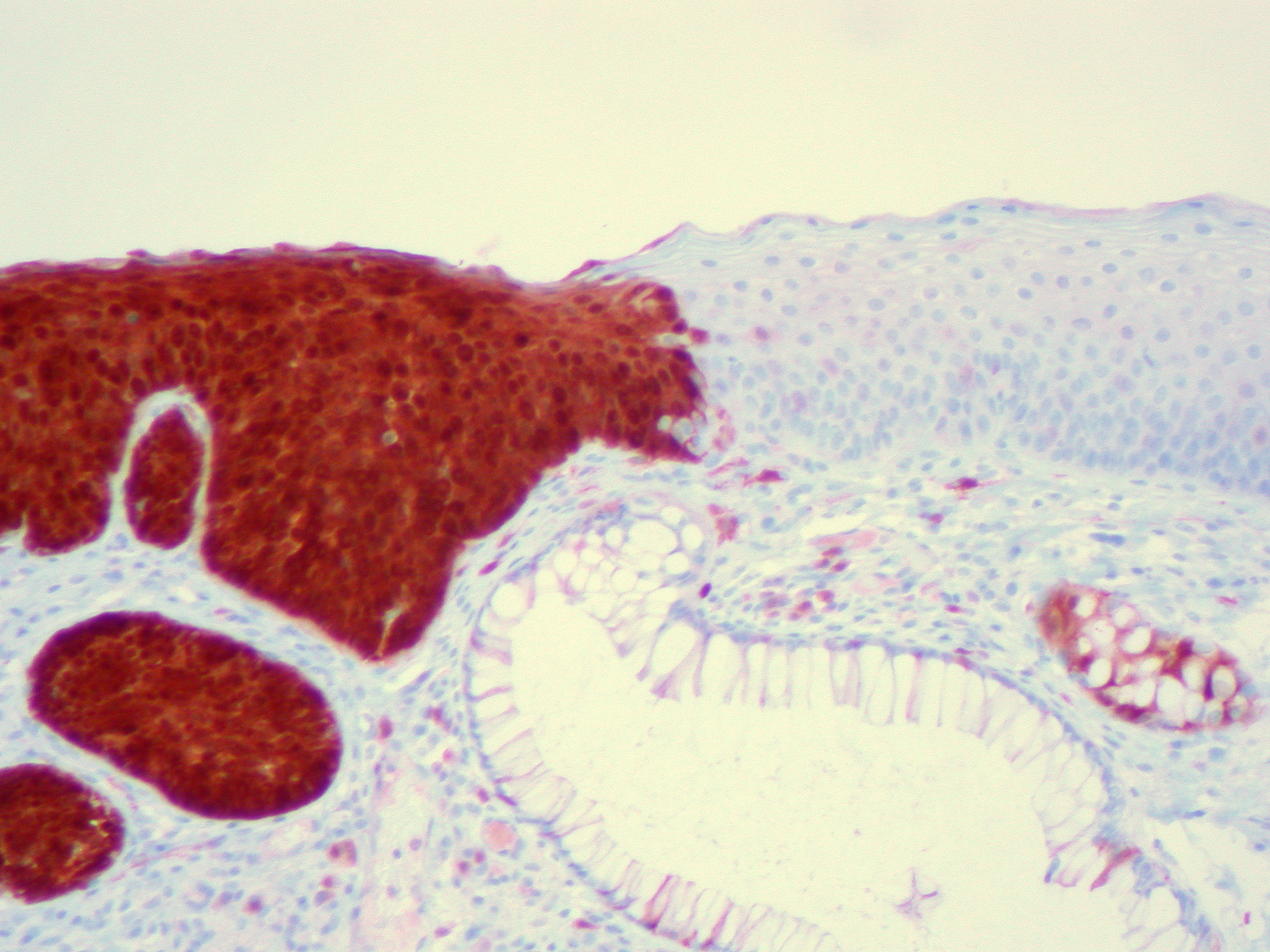 The p16 antigen is a marker for cells in which the HPV genome has been incorporated into host cell genome. In high-grade squamous lesions, the p16 reacts in a strong, diffuse pattern, while in other areas, the immunostain is either negative or patchy and weak. Pathological and histological images courtesy of Ed Uthman at flickr.